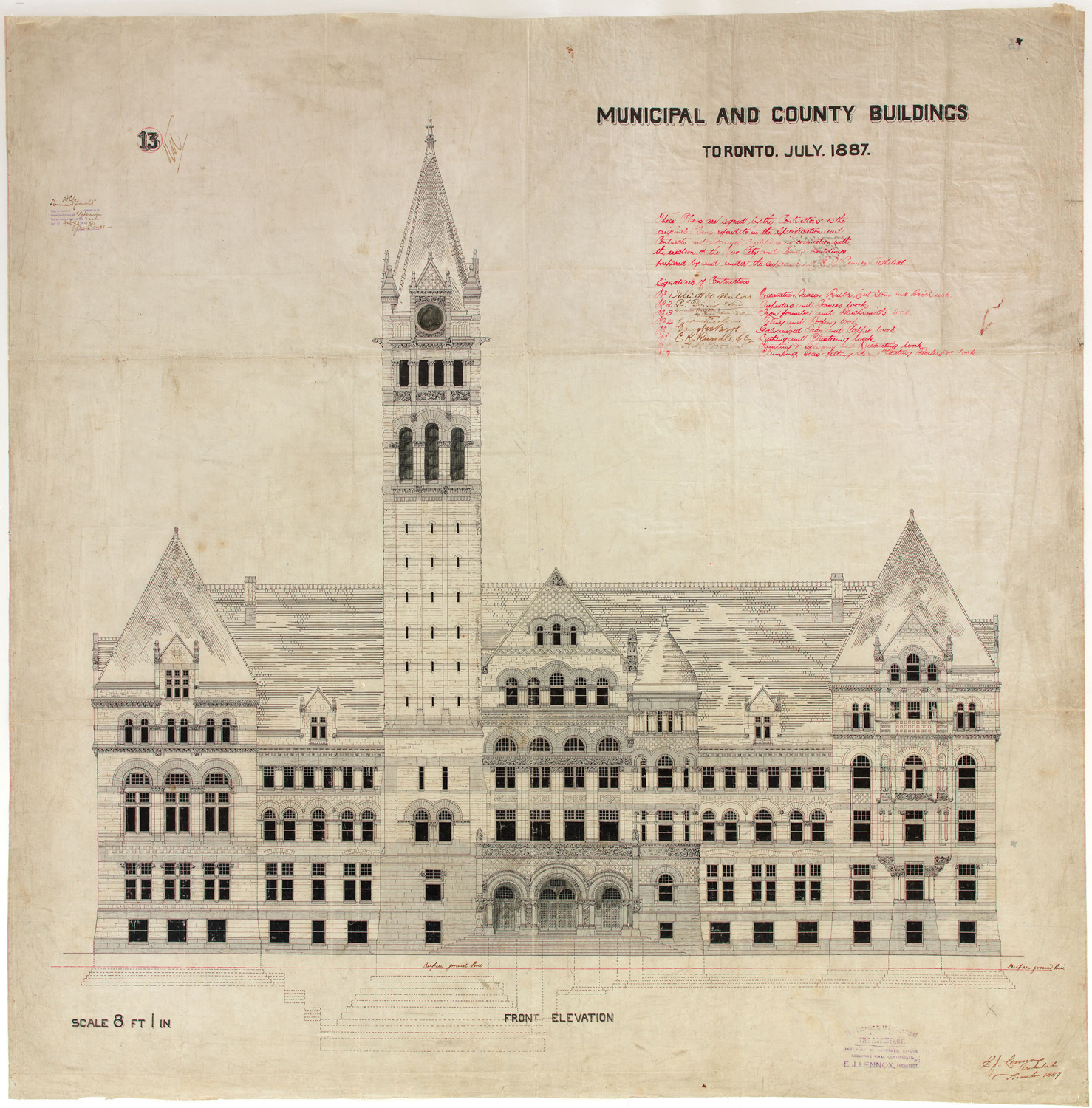 Architectural rendering of "Municipal & County Buildings" in Toronto. Completed in 1899, the building is now known as "Old City Hall" and serves as a courthouse. Toronto, Canada.